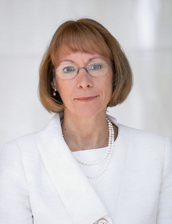 CEO and Chairman of the Executive Board